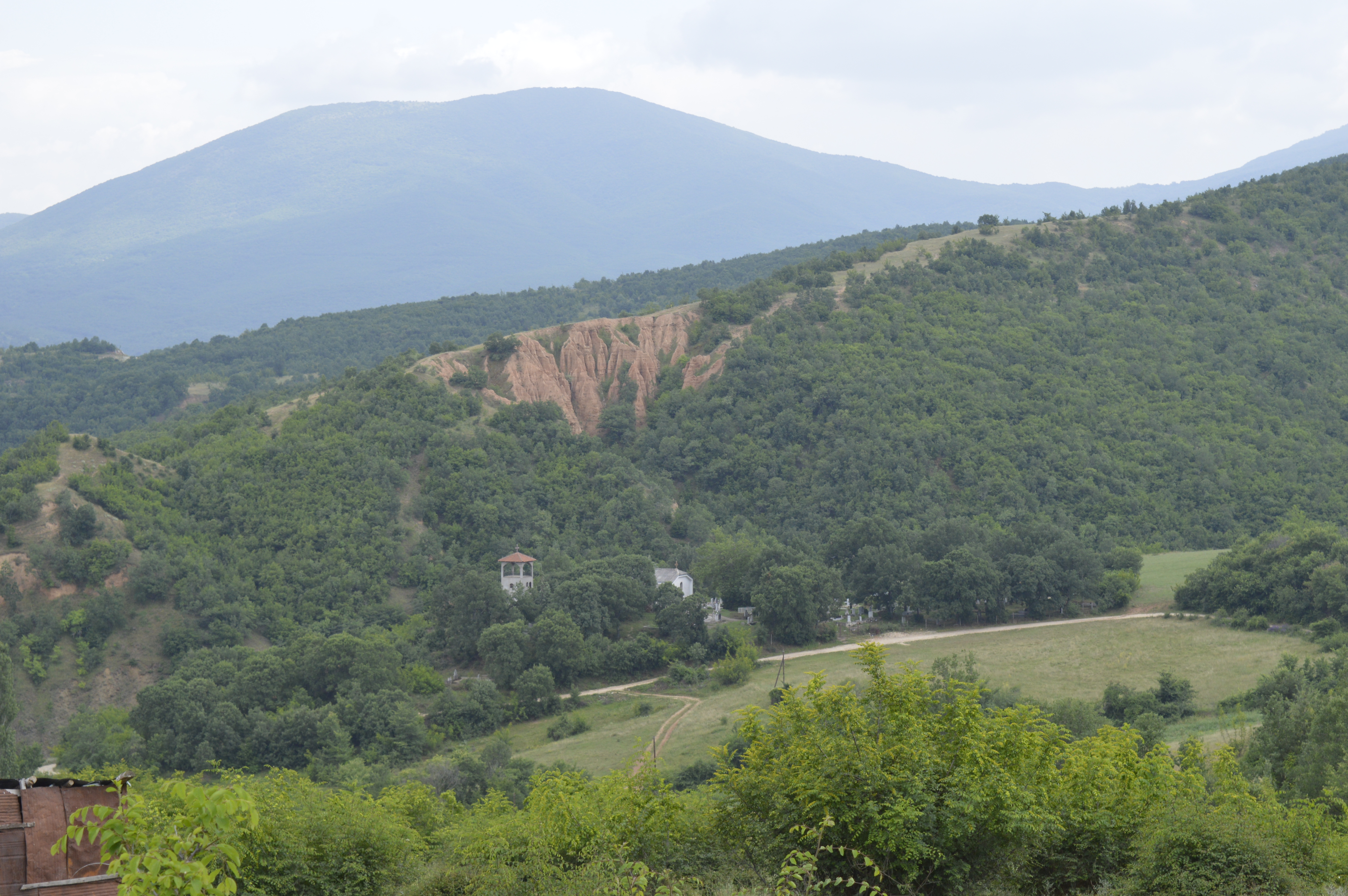 View of the St. Athanasius Church in the village Izvor